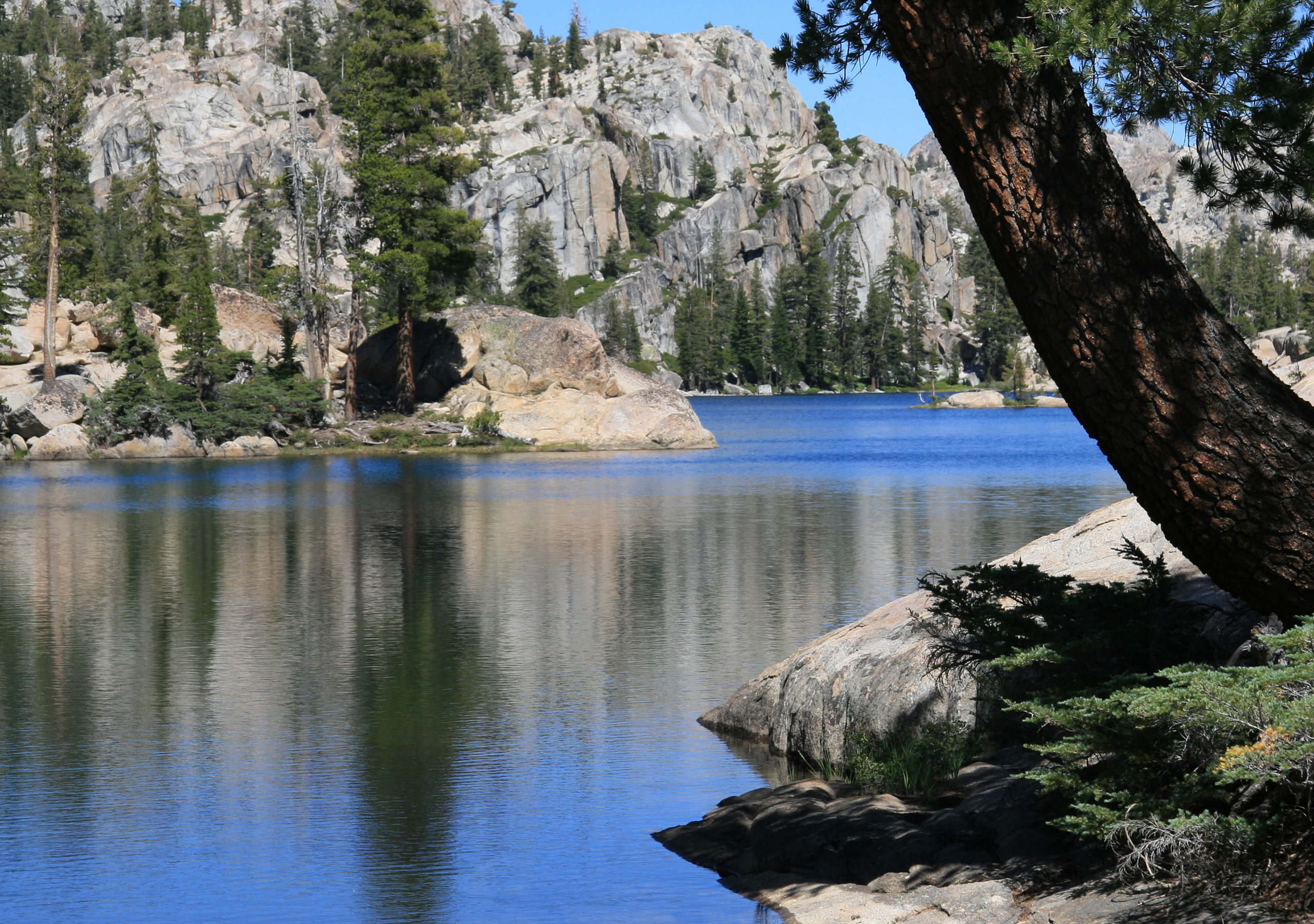 Lake Lertoria, from west end. At about 2,600 m (8,500 ft), in Emigrant Wilderness, Sierra Nevada USA. (Shown as Letora Lake on some maps.)